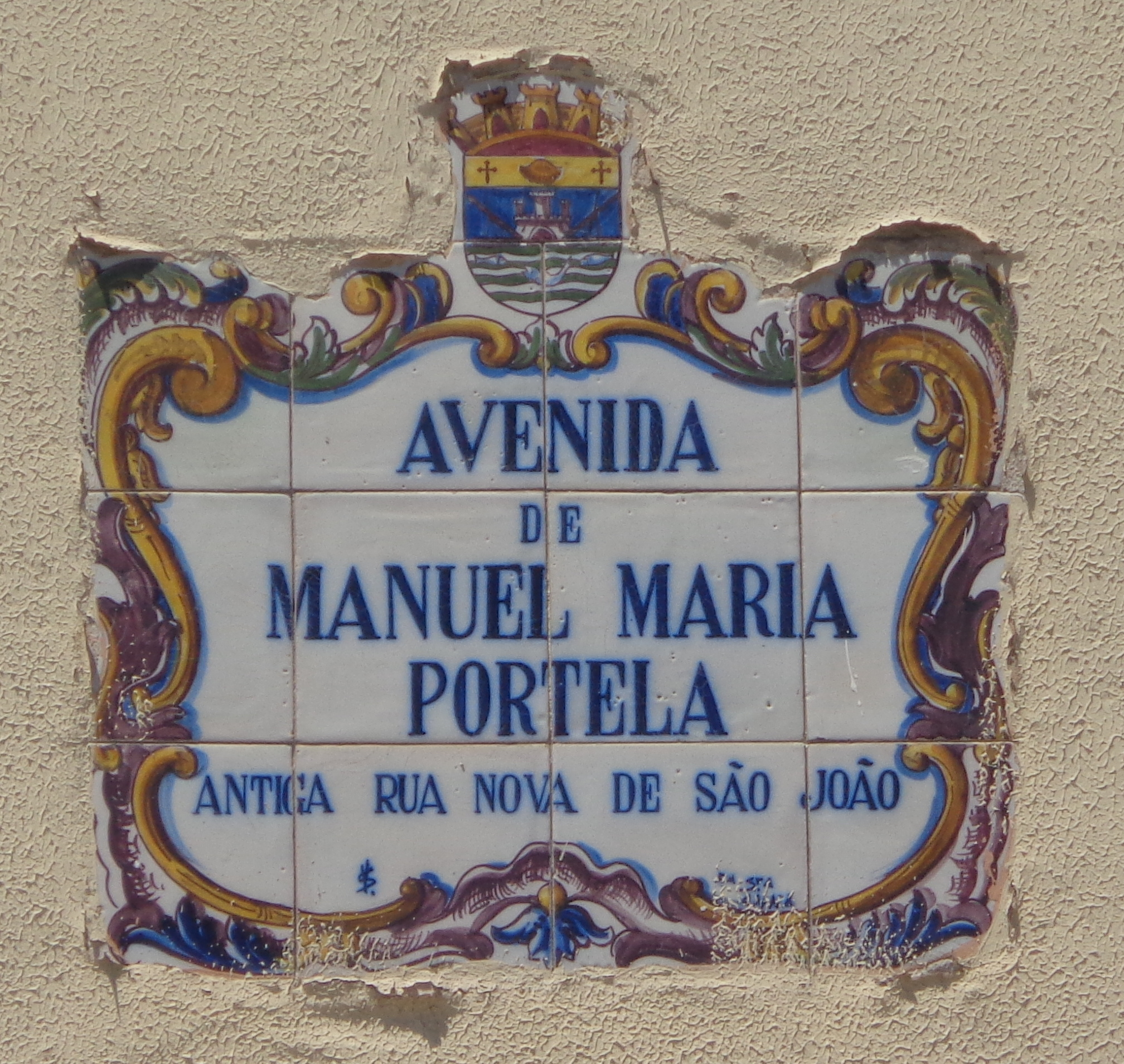 Placa identificadora de uma avenida da cidade de Setúbal : Avenida Manuel Maria Portela